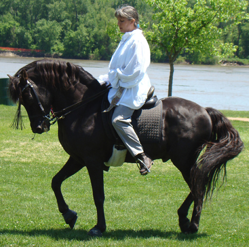 A Lippitt Morgan stallion performing at Lewis and Clark Heritage Days in Old Saint Charles, MO.